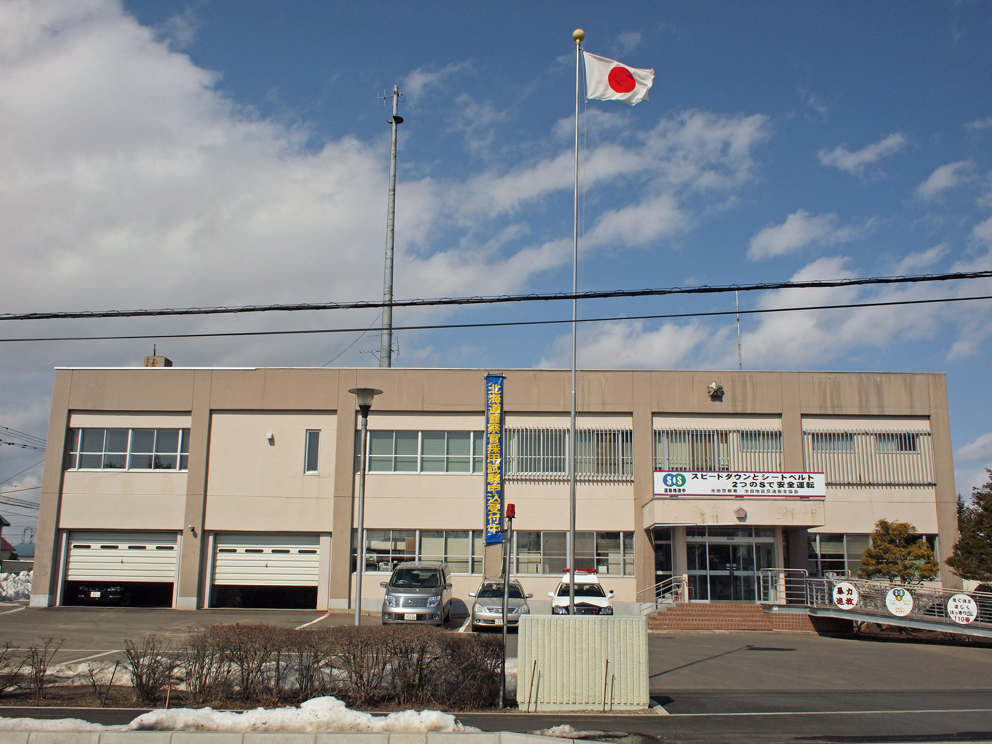 Ikeda police station, Ikeda, Hokkaido, Japan